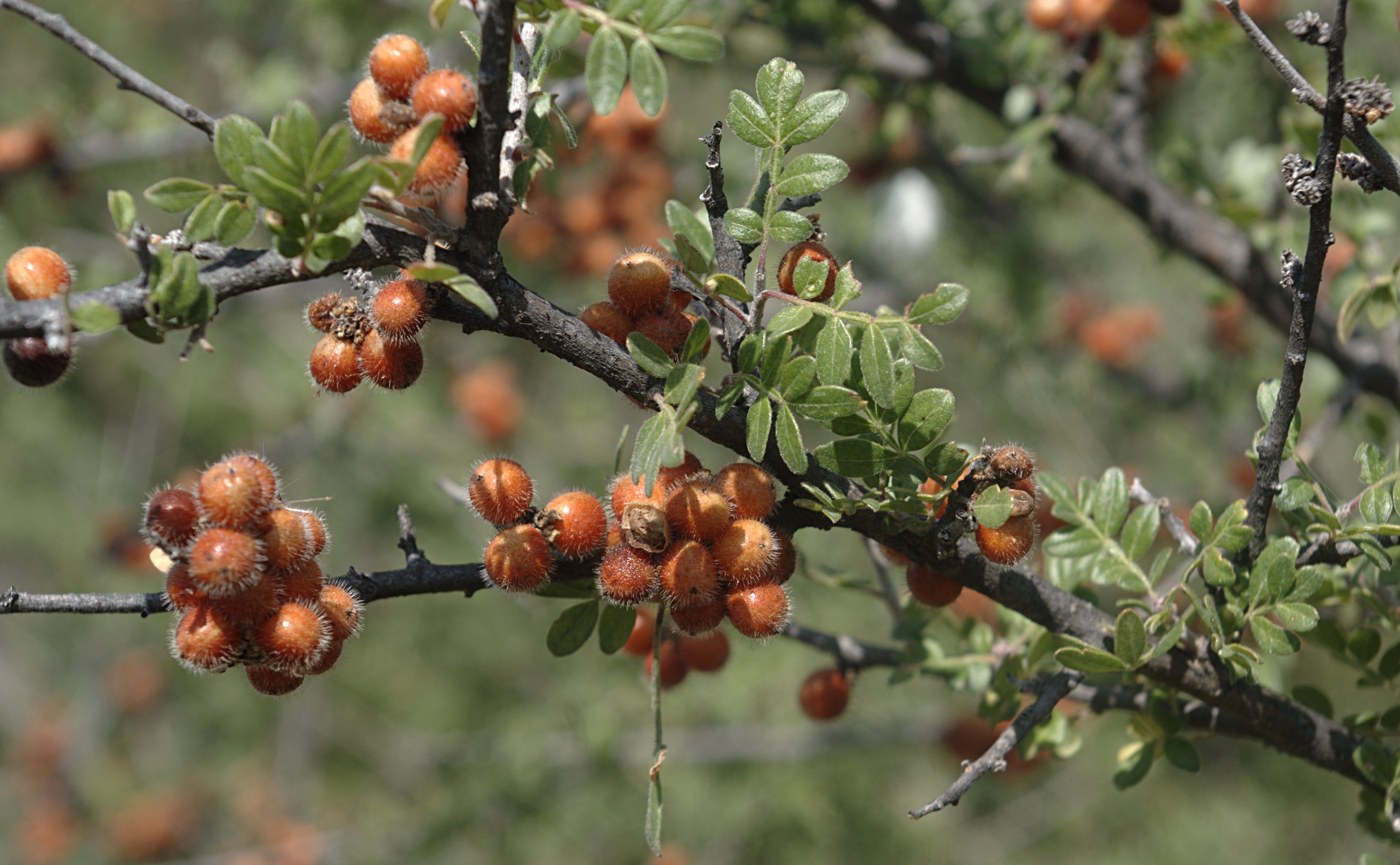 Rhus microphylla — Little-Leaf Sumac, branches with leaves and berries. At Rattlesnake Springs, Carlsbad Caverns National Park, New Mexico.